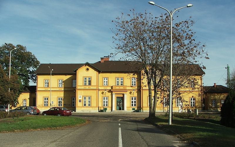 Tata city train station street side.